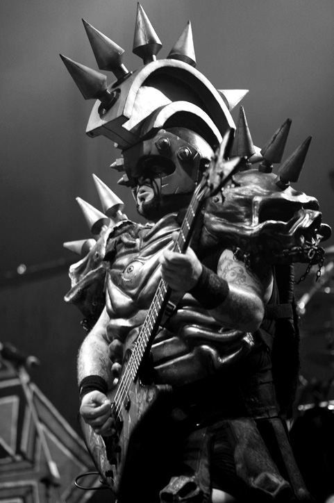 No Sleep Til Festival 2010